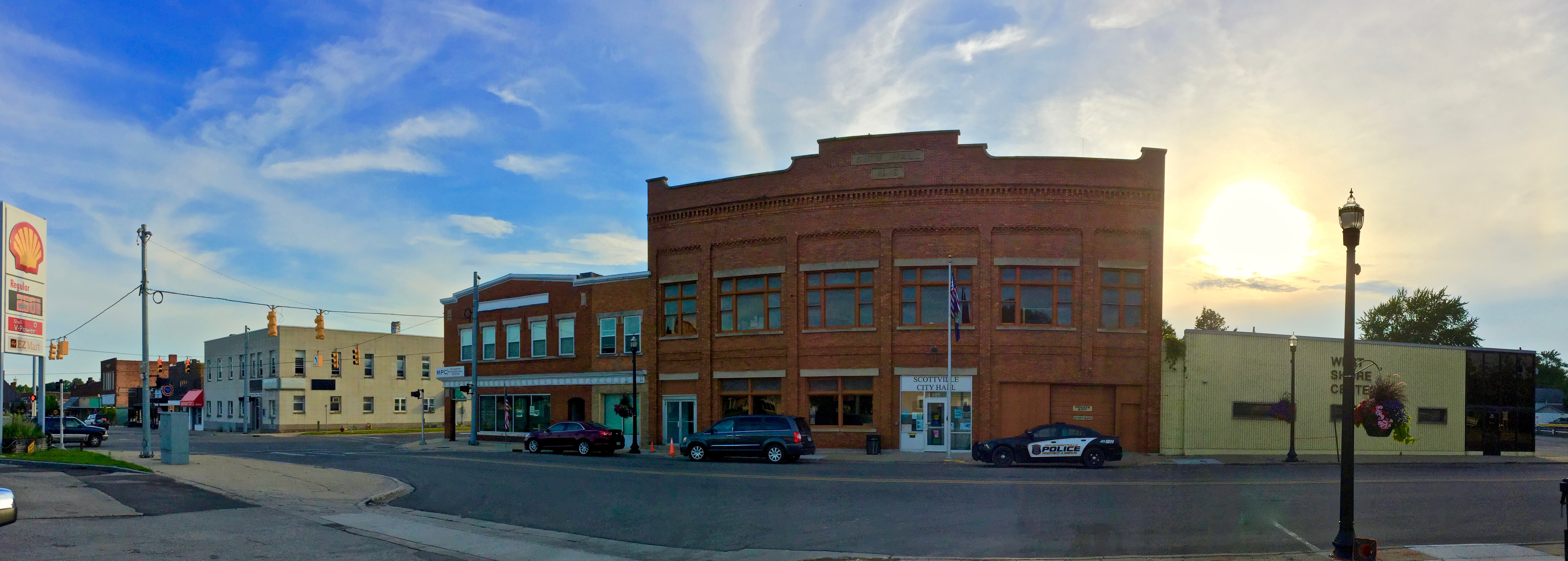 Panoramic image of Scottville, Michigan facing west towards the city hall, the large brick building. Main Street runs horizontally across the photo while the intersection of Main Street and State Street can be seen to the left.